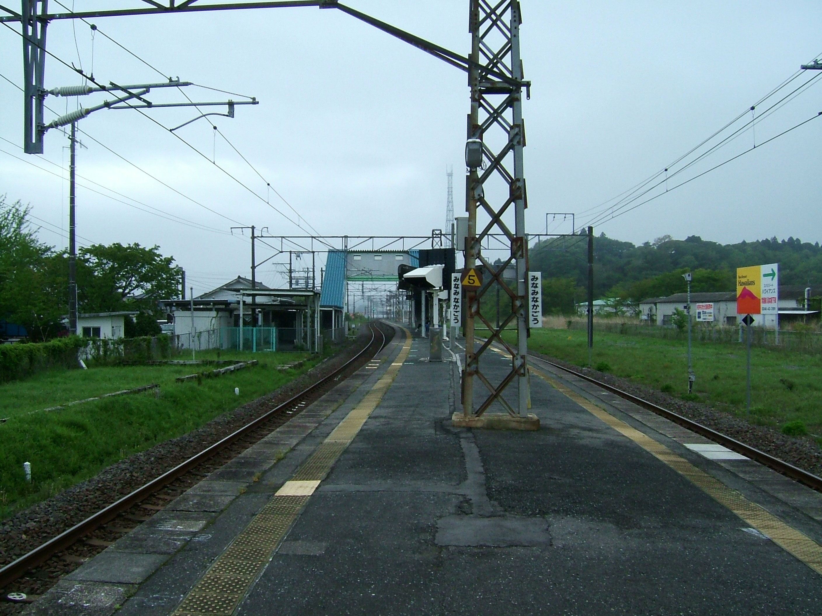 The platform of Minami-Nakagō Station, East Japan Railway Jōban Line